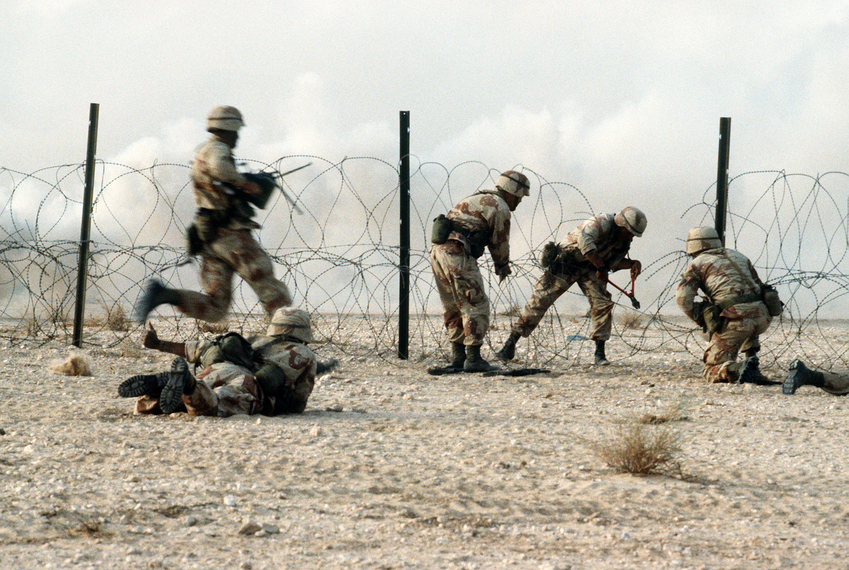 Members of the 1st Battalion, 325th Airborne Infantry Regiment, make their way through concertina wire during a live fire demonstration for Saudi Arabian national guardsmen. The demonstration is taking place during Operation Desert Shield.